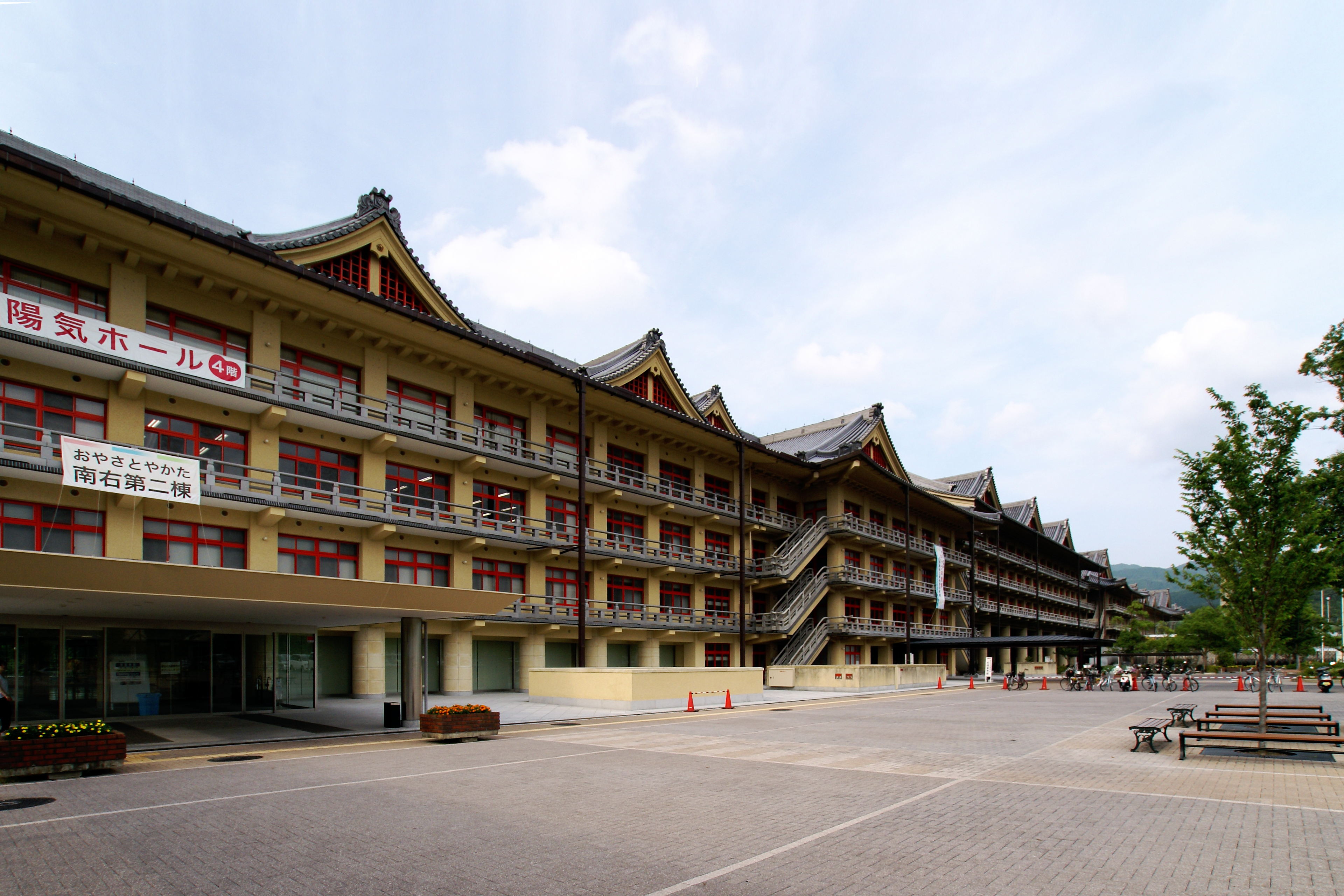 TTenri University Sankokan Museum in Tenri, Nara prefecture, Japan